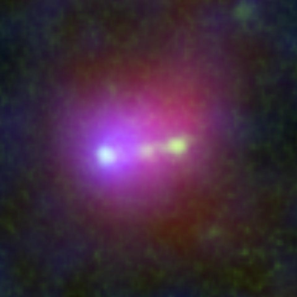 The big blob-like structure shown here, named Himiko after the legendary ancient queen of Japan, turns out to be three galaxies thought to be in the process of merging into one. In this image, infrared data from NASA's Spitzer Space Telescope are red; visible data from NASA's Hubble Space Telescope are green; and ultraviolet data from Japan's Subaru telescope on Mauna Kea, Hawaii are blue.